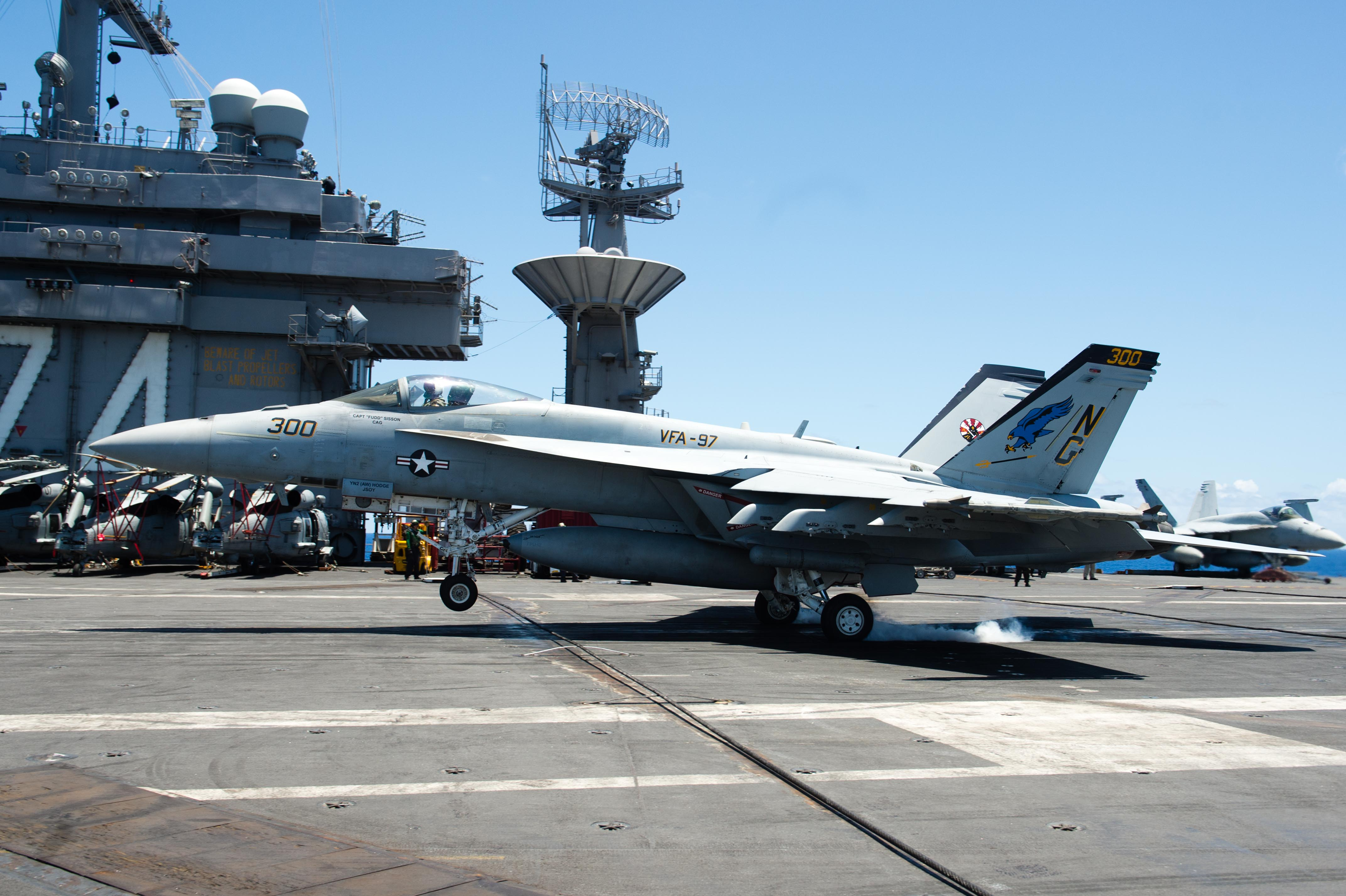 A U.S. Navy Boeing F/A-18E Super Hornet assigned to Strike Fighter Squadron 97 (VFA-97) "Warhawks" performs a touch-and-go maneuver on the flight deck of the aircraft carrier USS John C. Stennis (CVN-74) flight deck during Rim of the Pacific. Twenty-six nations, more than 40 ships and submarines, more than 200 aircraft and 25,000 personnel were participating in RIMPAC from 30 June to 4 August, in and around the Hawaiian Islands and Southern California. The worlds largest international maritime exercise, RIMPAC provides a unique training opportunity that helps participants foster and sustain the cooperative relationships that are critical to ensuring the safety of sea lanes and security on the world's oceans. RIMPAC 2016 is the 25th exercise in the series that began in 1971.